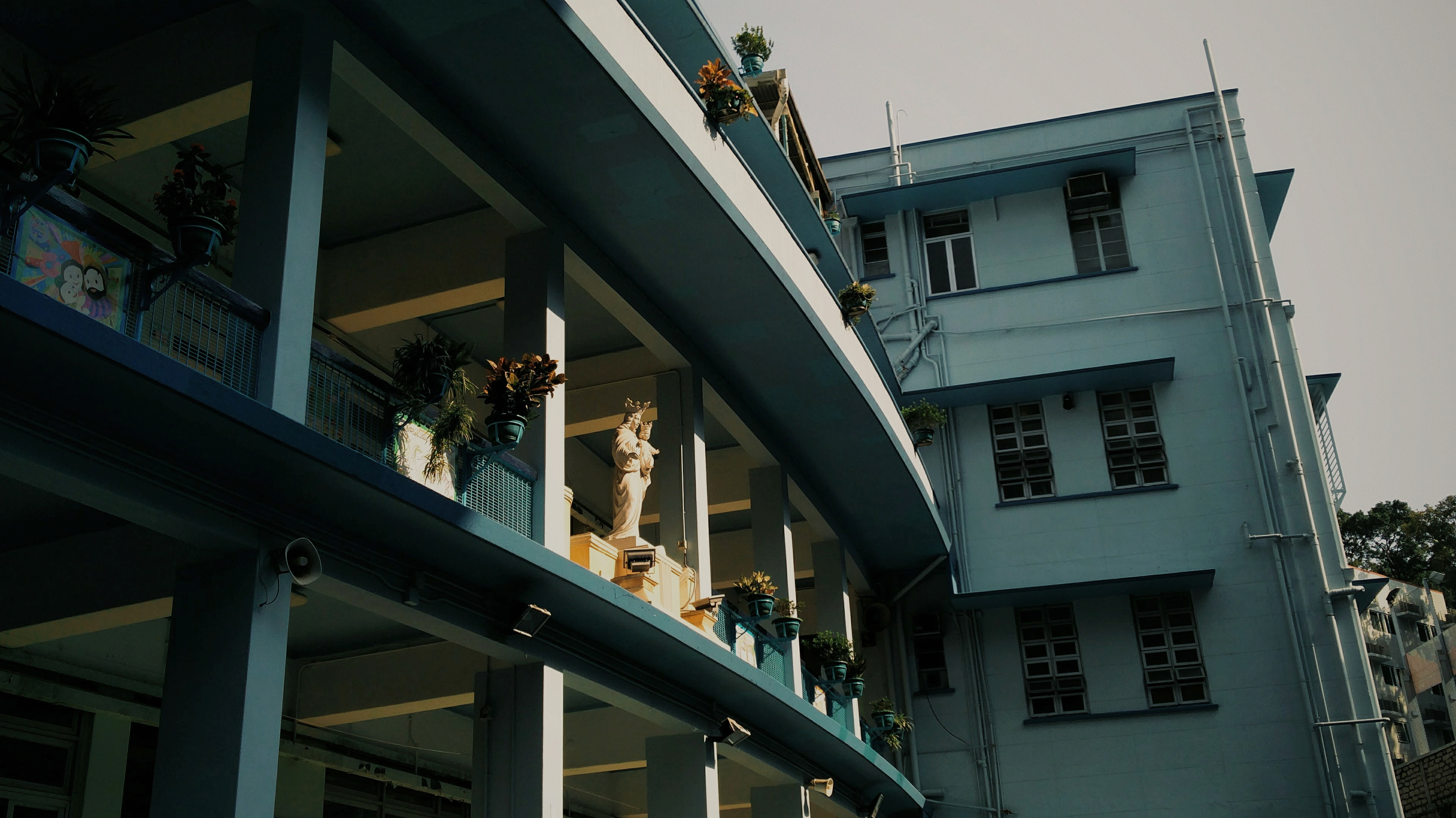 The inside of the campus. (Middle: The Statue of Mary Help of Christian)